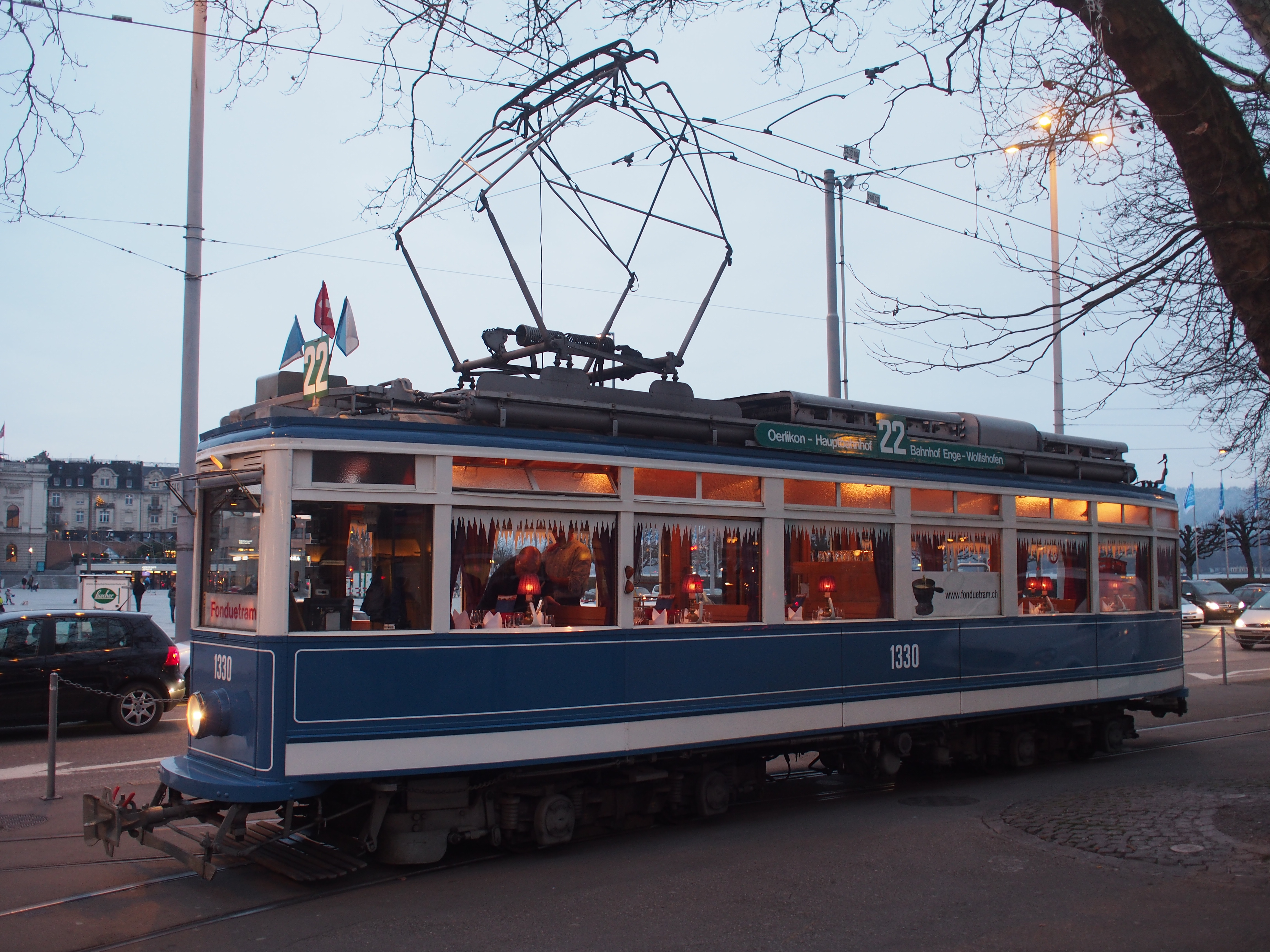 Historic streetcar Ce 4/4 1330 used as "Fonduetram", Zurich Switzerland. Left side.